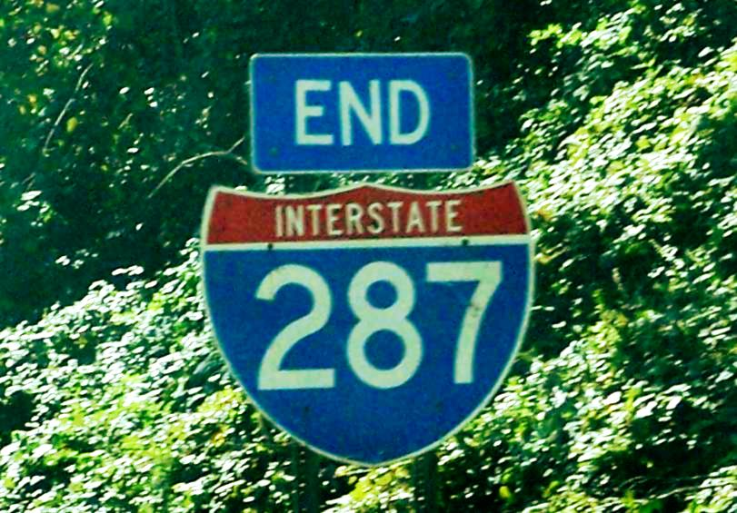 The eastern terminus of I-287 at I-95.